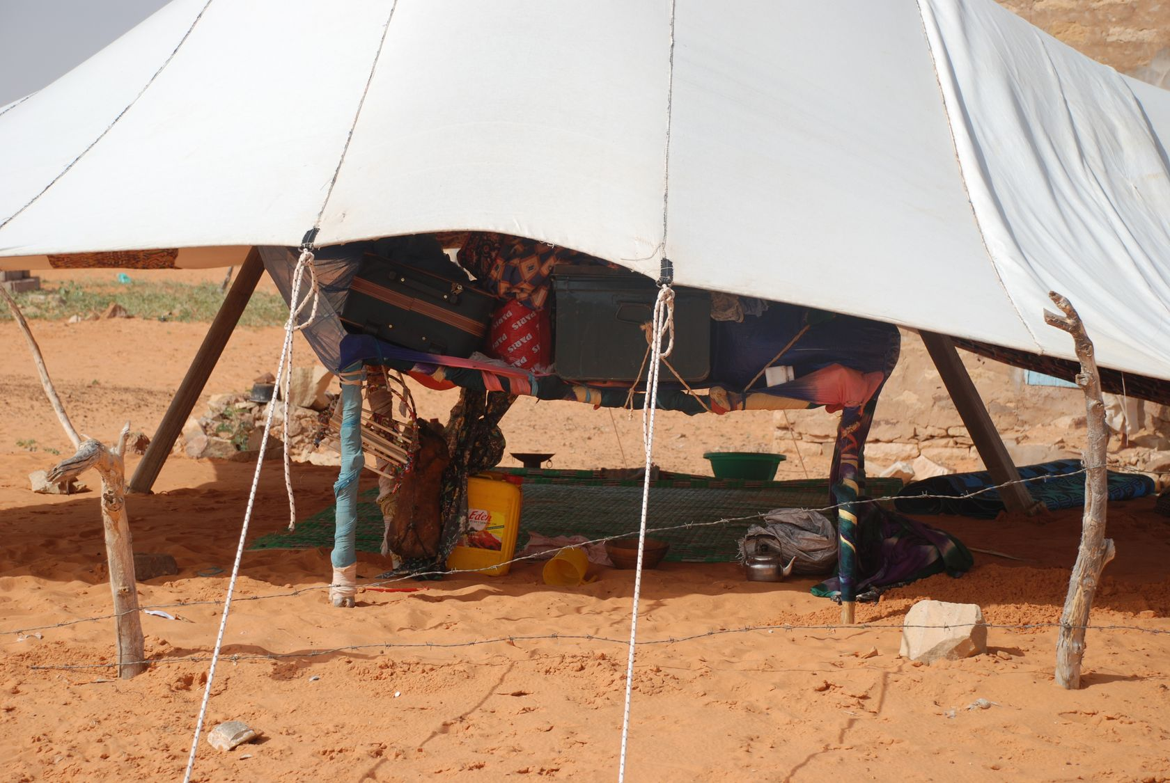 Khaima, tent near Tidjikja, Mauritania